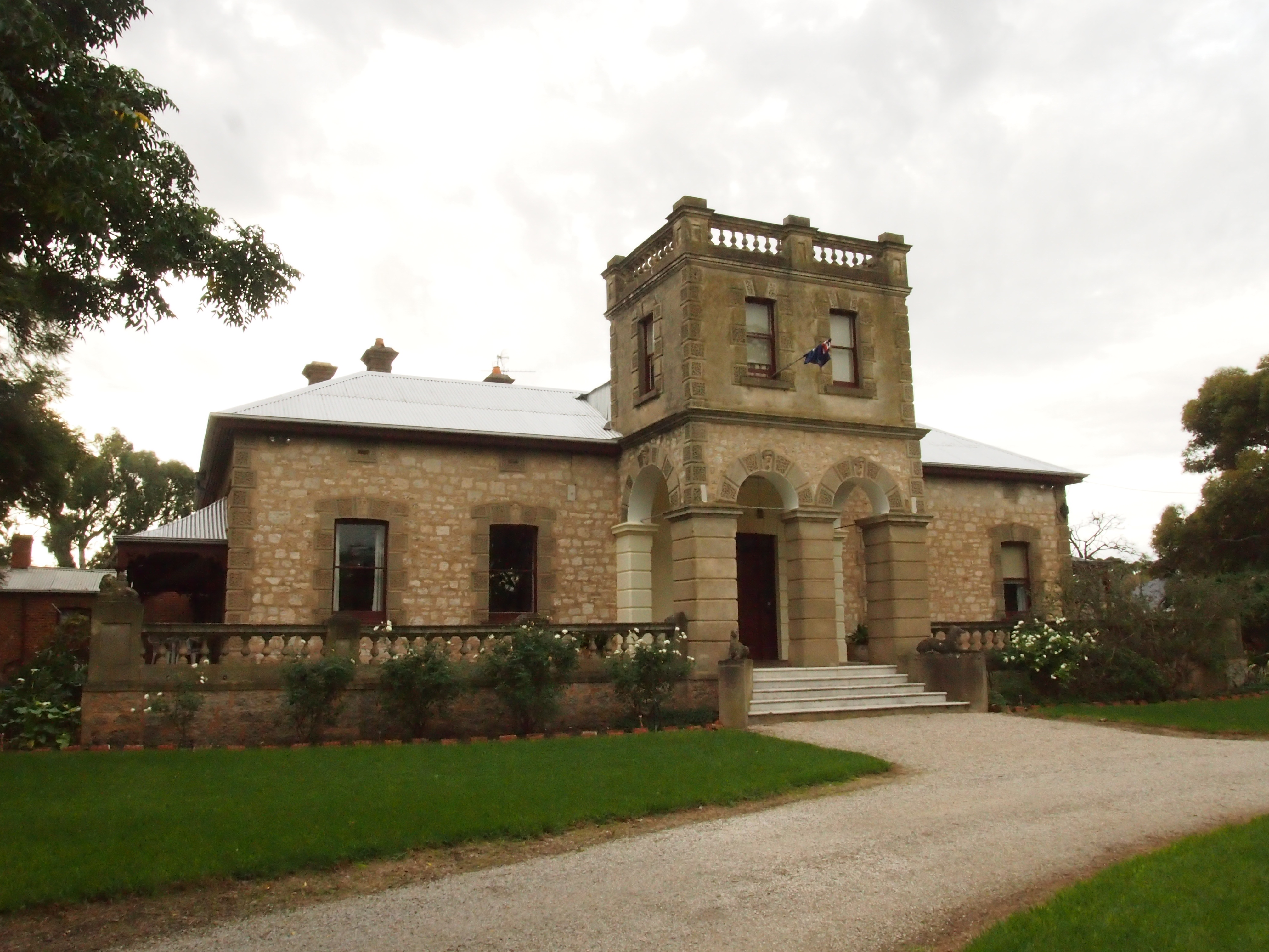 "Weetunga", Fulham, South Australia, built in 1878 Original filename = P5222440.JPG